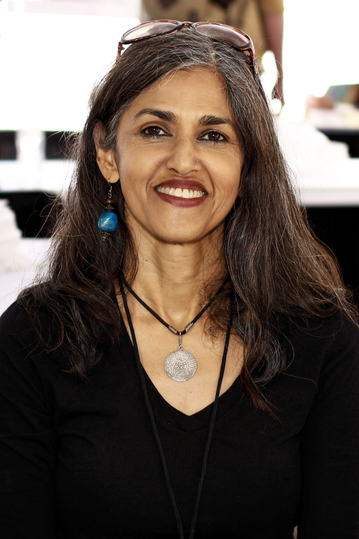 Author Sehba Sarwar at the 2019 Texas Book Festival in Austin, Texas, United States.